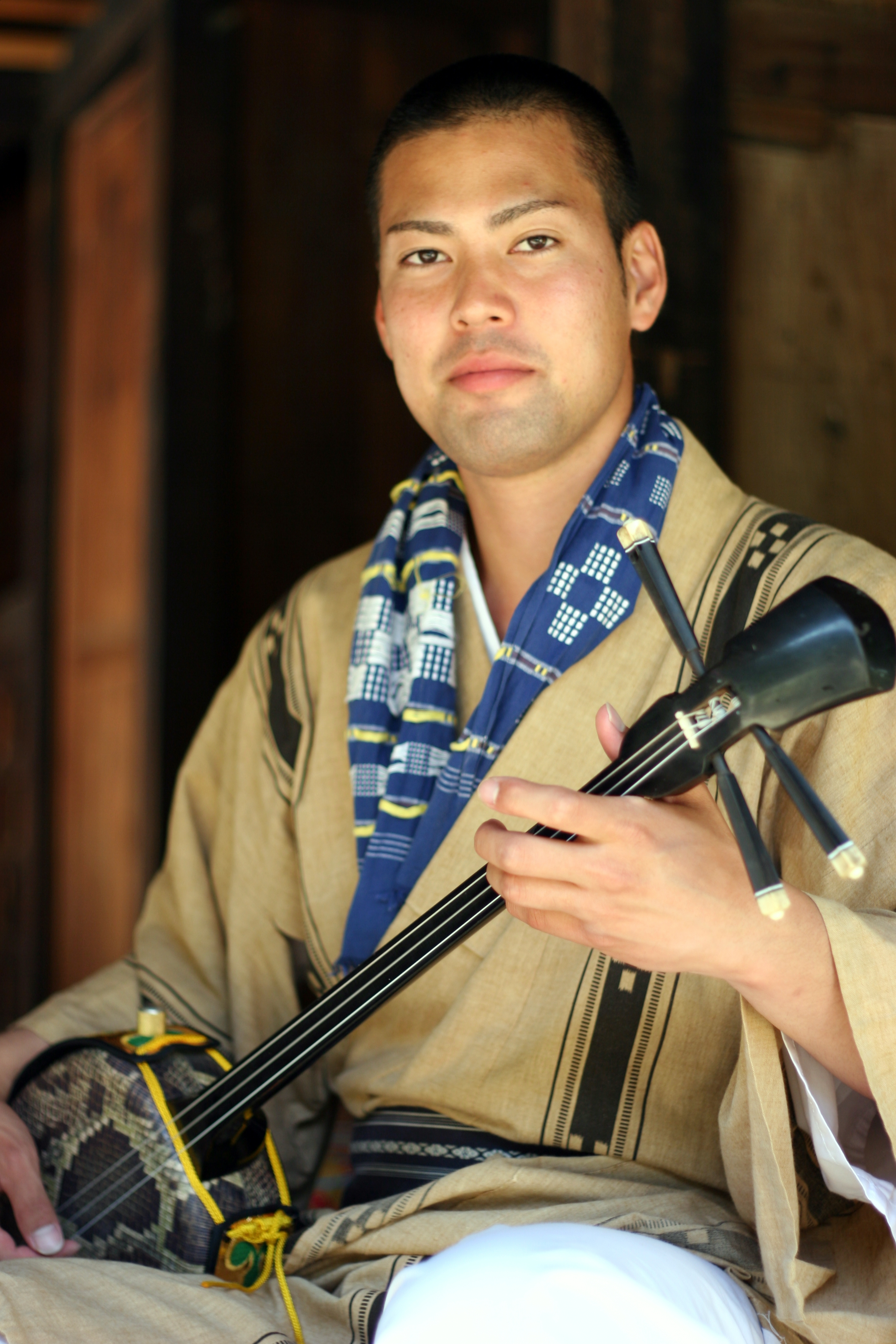 sanshin player